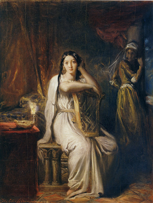 Desdemona // Wrightsman Collection